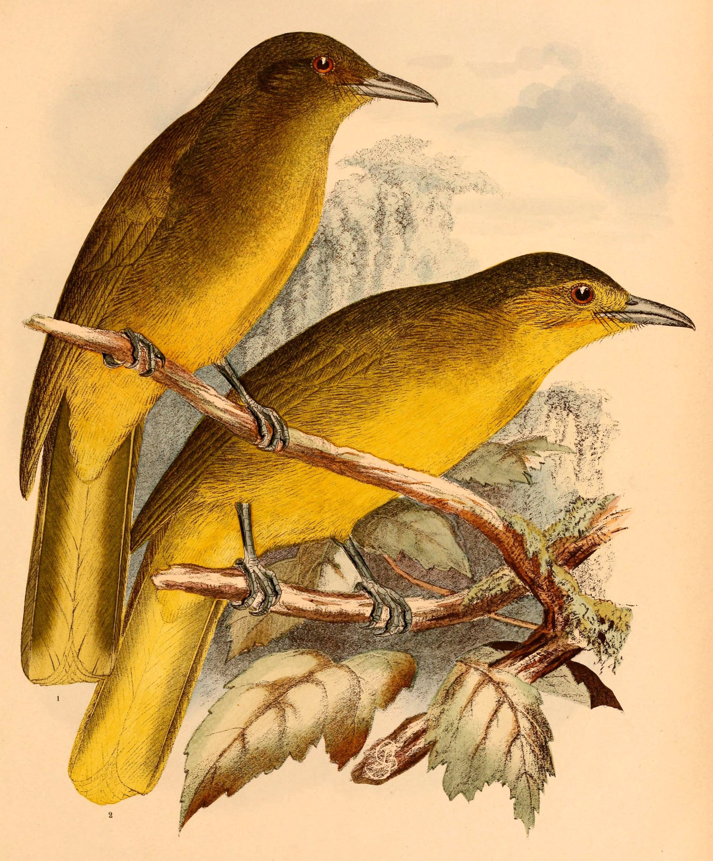 « Iole aurea » = Thapsinillas longirostris aureus (Subspecies of Golden Bulbul) « Iole platenae » = Thapsinillas longirostris platenae (Subspecies of Golden Bulbul)